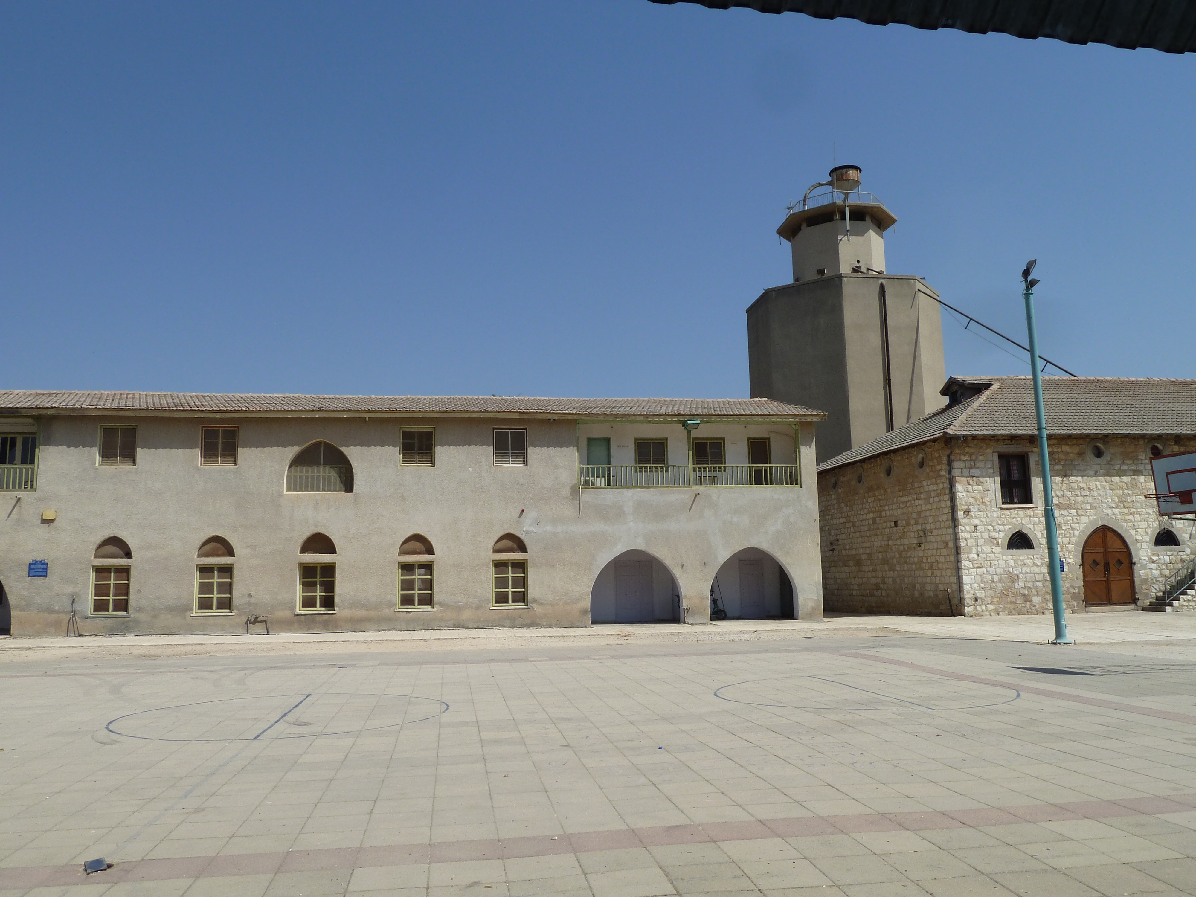 The Large Yard at Merhavia (Merhavia Courtyard)